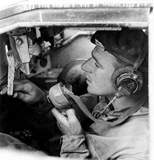 View inside the driving compartment of the Valentine tank